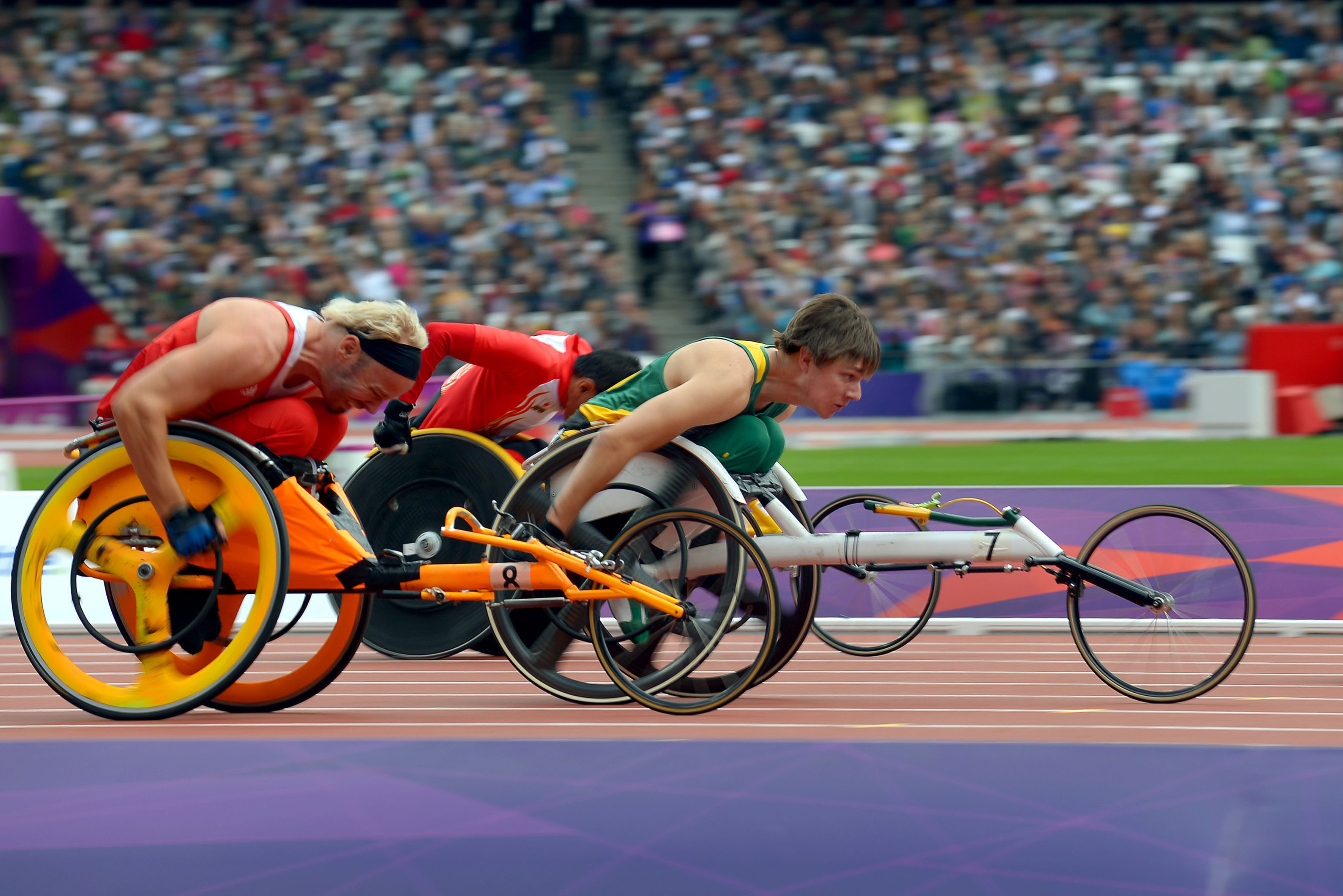 Photograph of Australian Paralympic team member Sam McIntosh at the 2012 Summer Paralympic Games in London